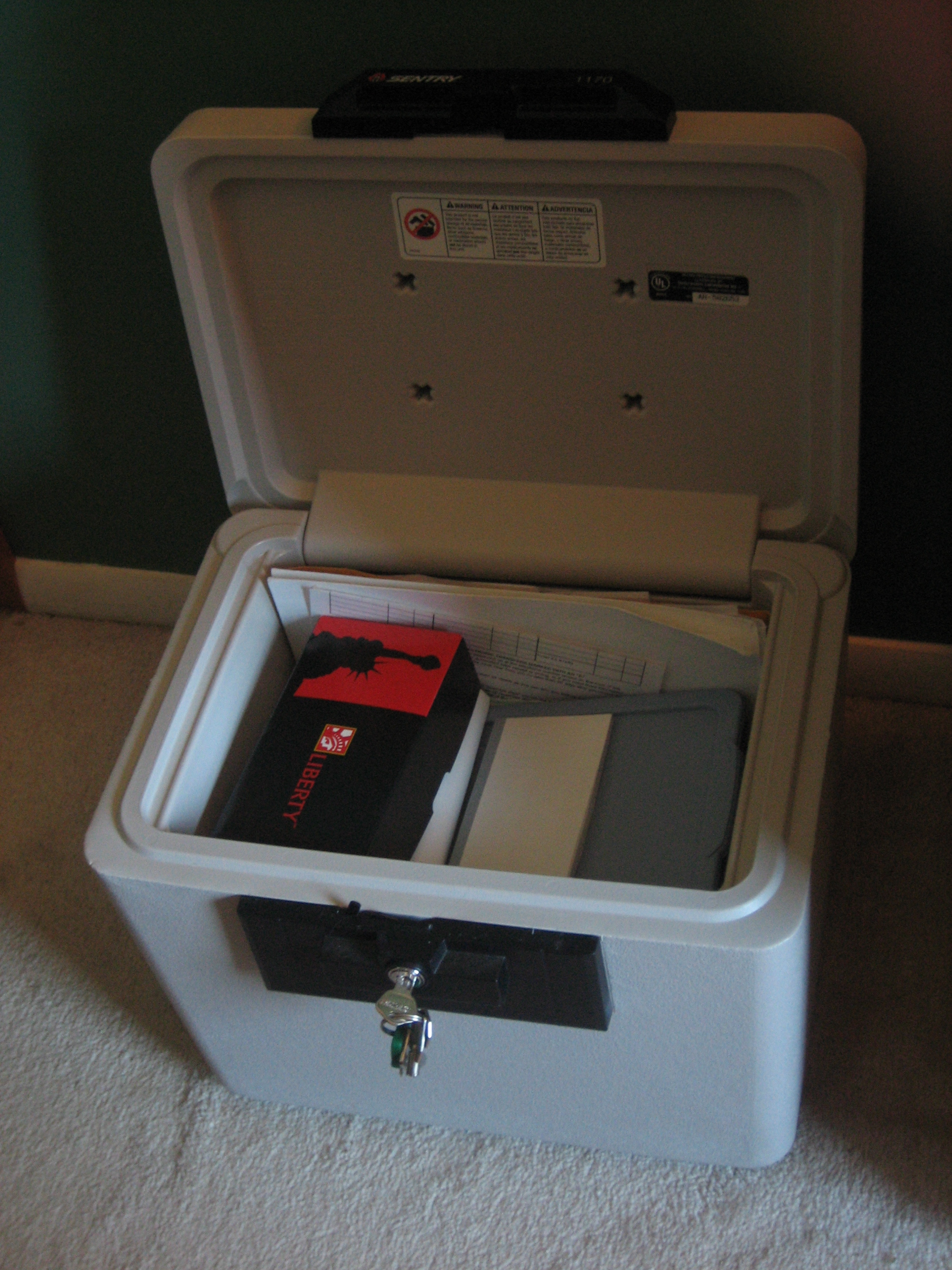 A fire-resistant home safe